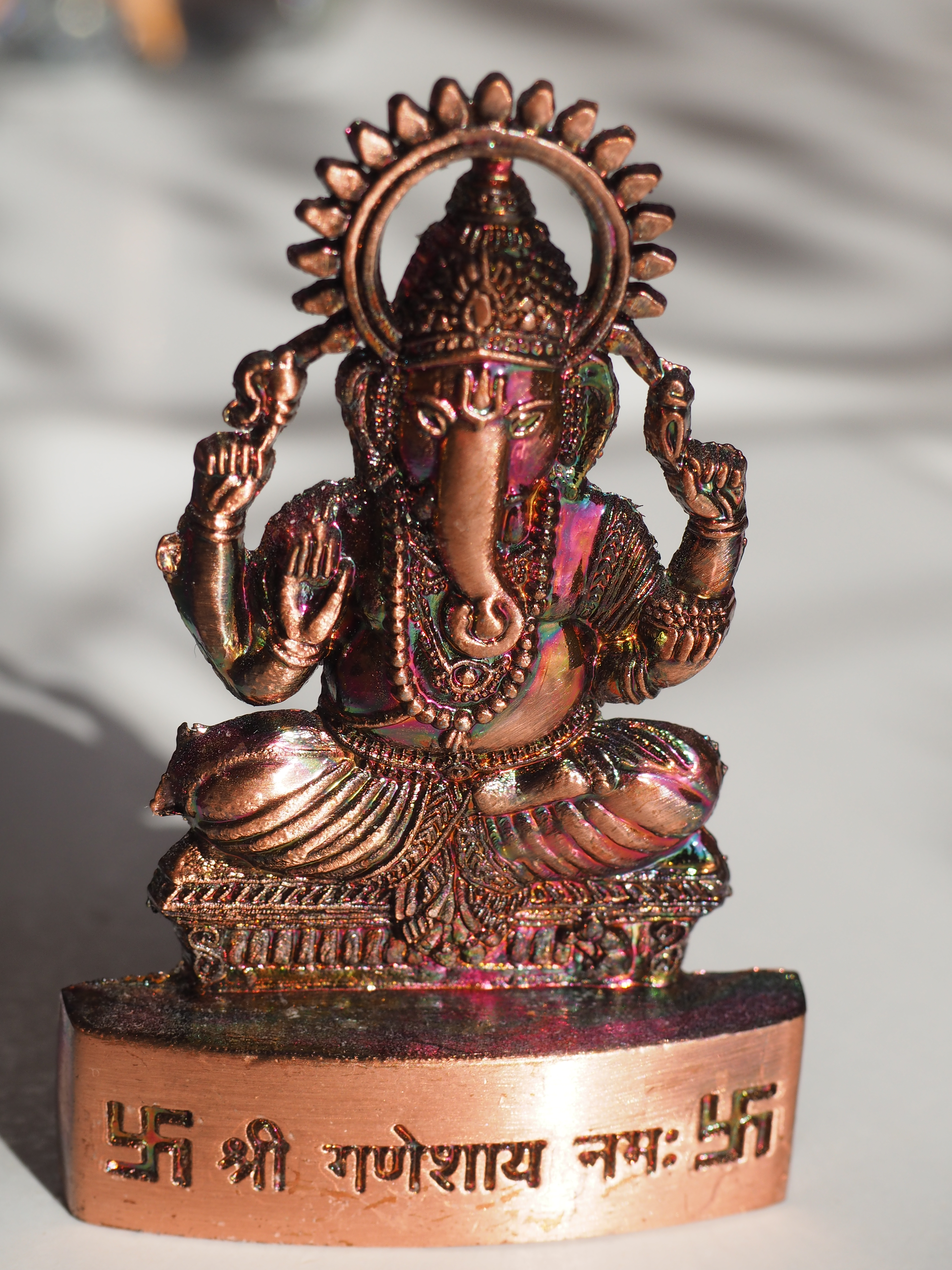 Hindu statuette of the god Ganesh with swastika